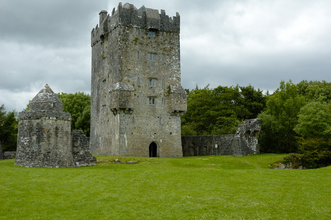 View of Aughnanure Castle, Ireland